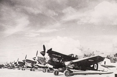 AWM Caption: CURTISS KITTYHAWK FIGHTERS OF NO. 78 SQUADRON AT NOEMFOOR IN LATE 1944. NOTE WHITE TAIL UNITS. NOTE ALSO "HOT STUFF" ON ENGINE COWLING OF AIRCRAFT NEAREST CAMERA.